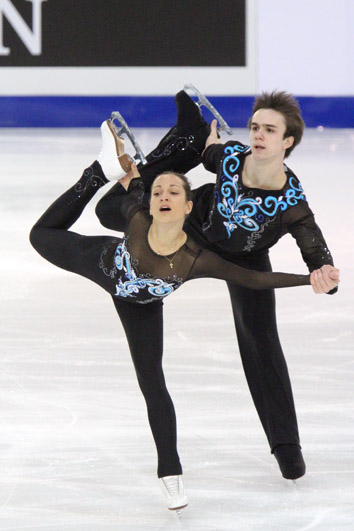 2010 World Junior Figure Skating Championships - Ksenia Stolbova and Fedor Klimov